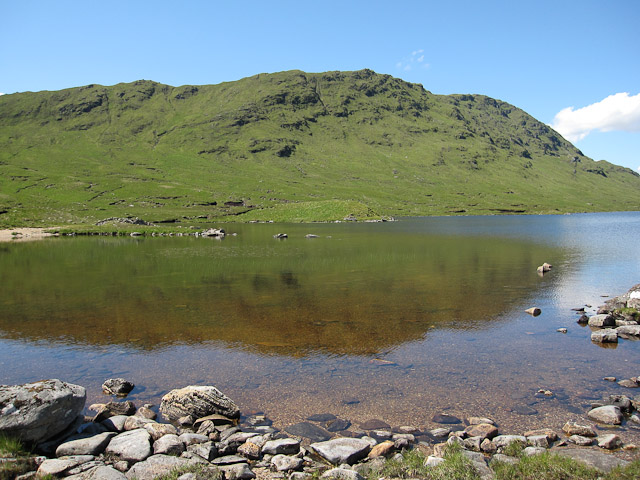 Loch Calavie With Beinn Dronaig behind.